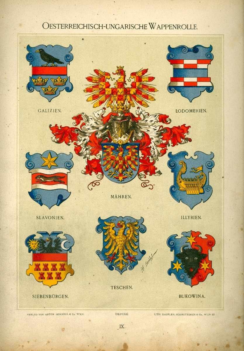 Full-color table IX of "Österreichisch-Ungarische Wappenrolle" by Hugo Gerard Ströhl.